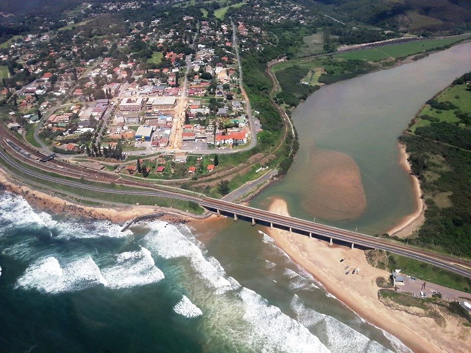 Microlight over Umkomaas